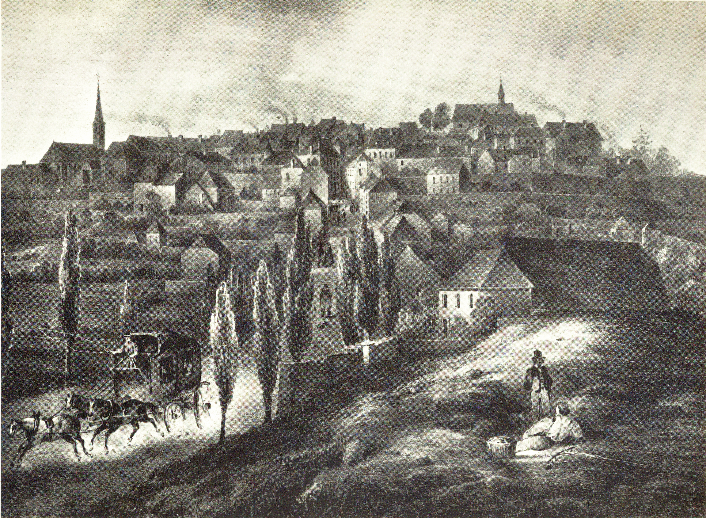 Vue upon Arlon, Belgium. Drawing.